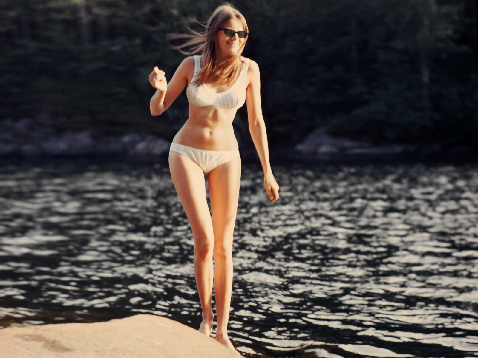 Young woman standing on a rock by the water